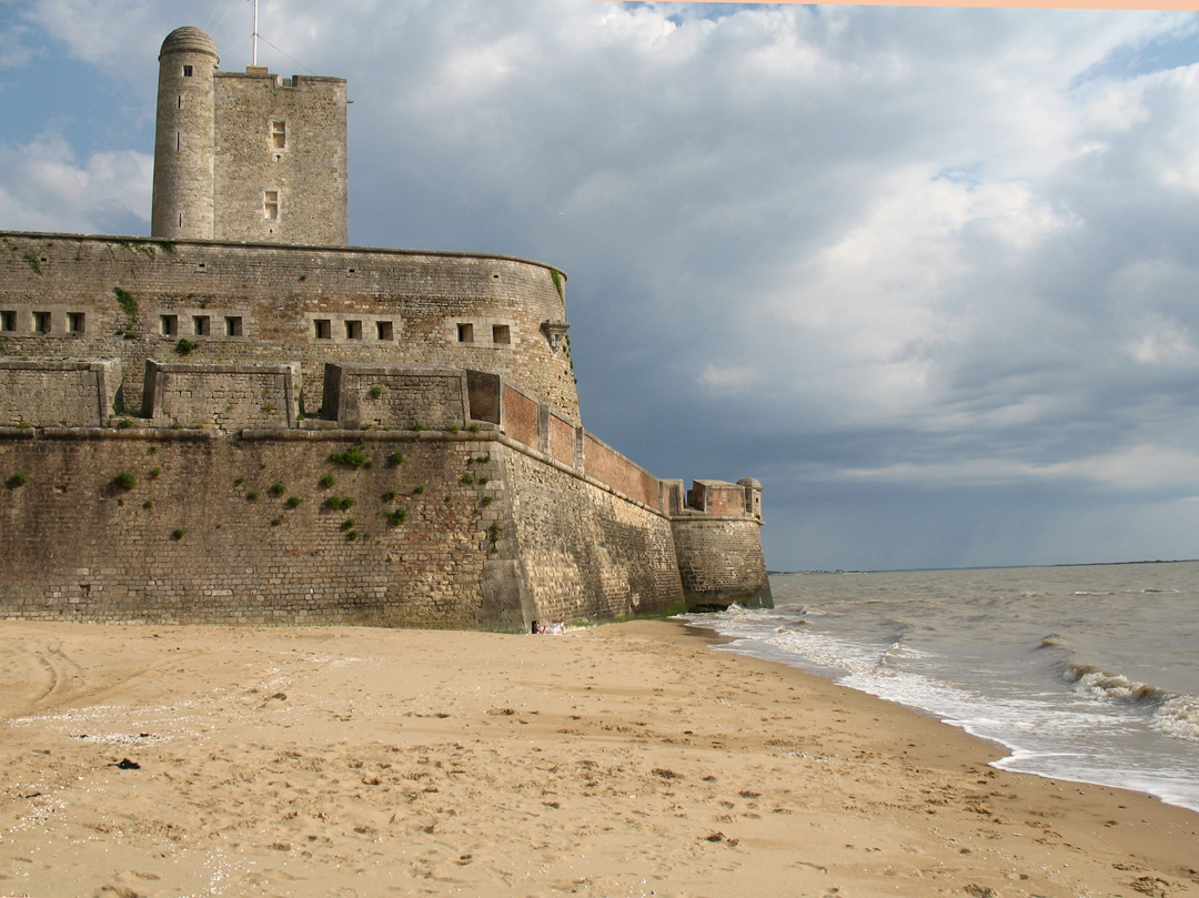 Fort Vauban, Fouras, France